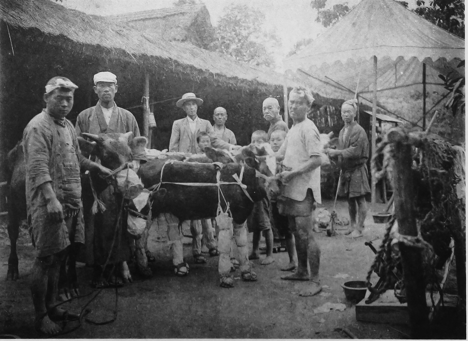 Experiment of infection route of schistosomiasis japonica. June 20, 1909.